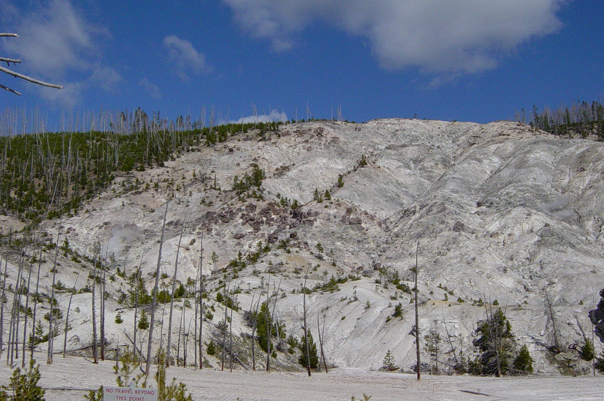 Photo taken in the Yellowstone area.